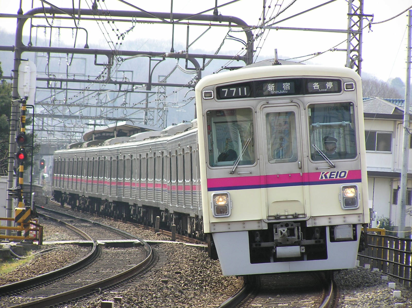 撮影地Place of photo南平～平山城址公園撮影の状況How to take公道から撮影At public roadトリミングの有無Cropped or not非トリミングNot Cropped内容Description京王7000系7711FTrain of Keio.